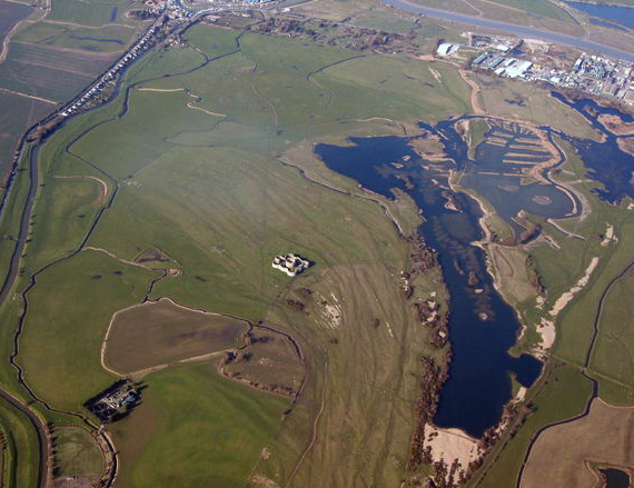 Camber Castle From 4000 feet